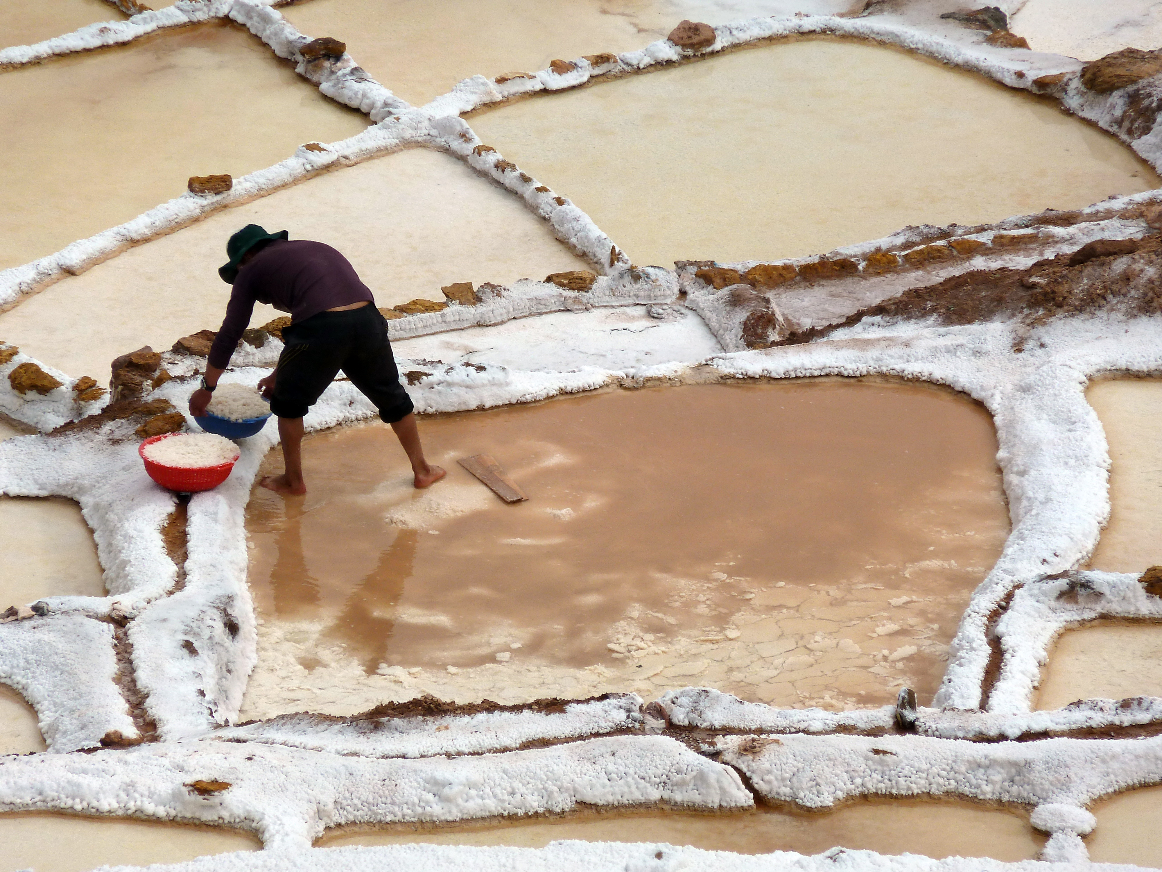 Salinas de Maras, Peru.